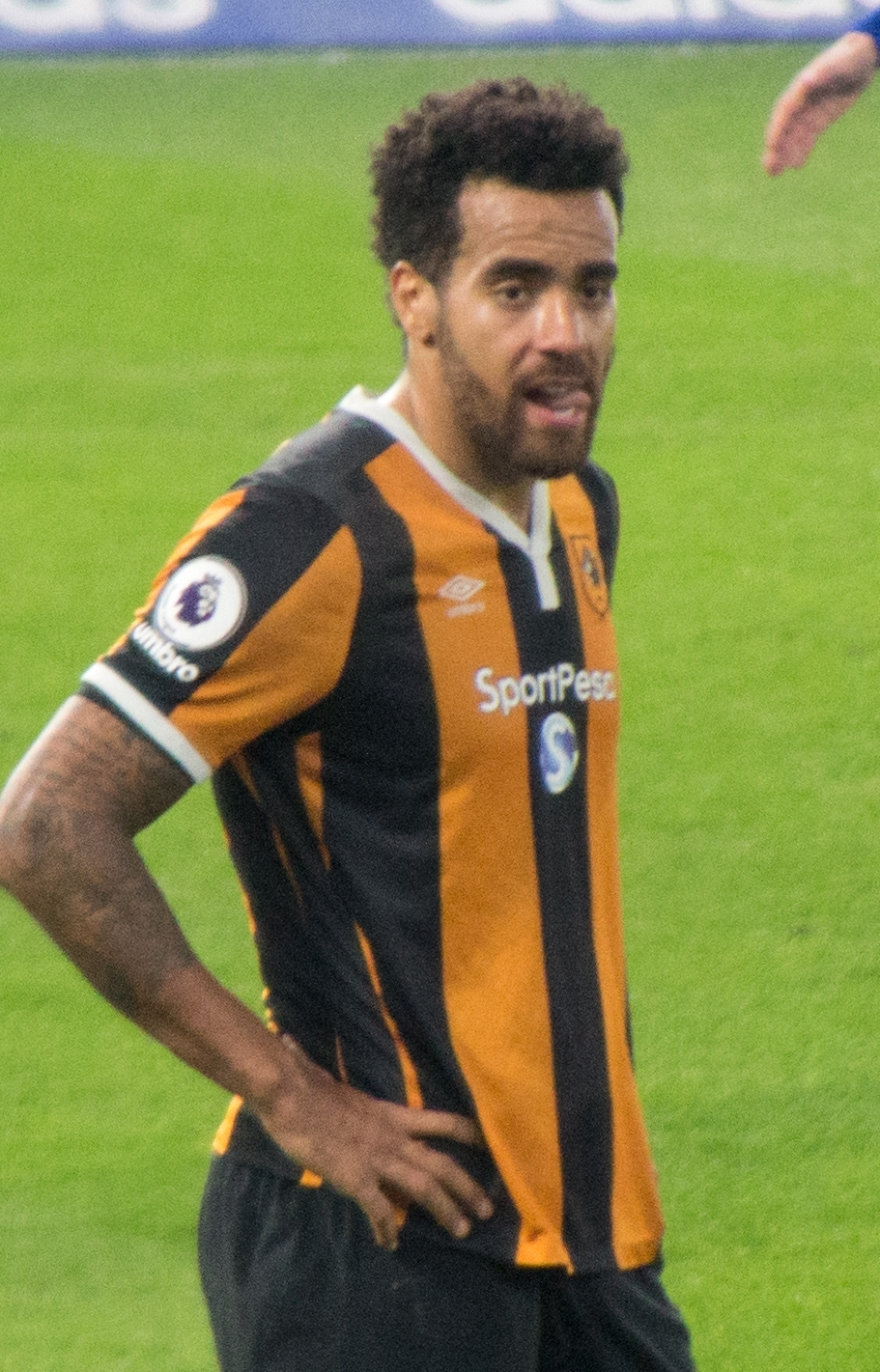 Tom Huddlestone playing for Hull City against Chelsea at Stamford Bridge, London on 22 January 2017